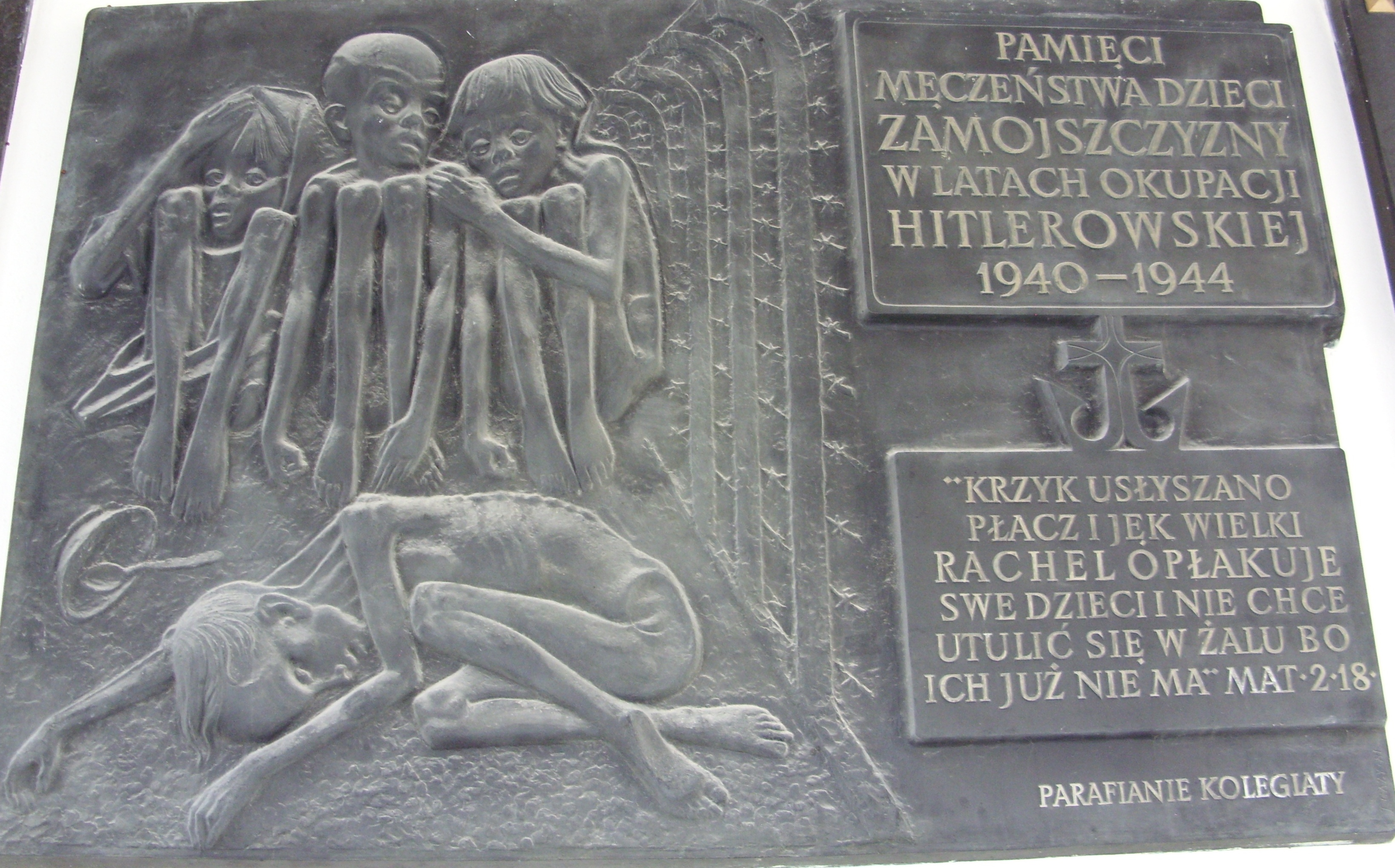 In Memory martyrdom Polish children of the Zamosc Region during German-occupation in German-occupied Poland. Inscription: Matthew 2, 18: "A voice was heard, sobbing and loud lamentation; Rachel weeping for her children, and she would not be consoled, since they were no more."